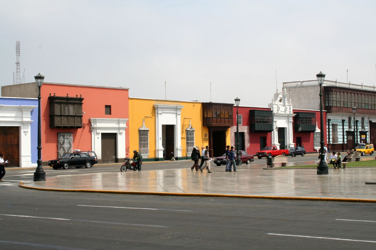 Trujillo - Plaza de Armas